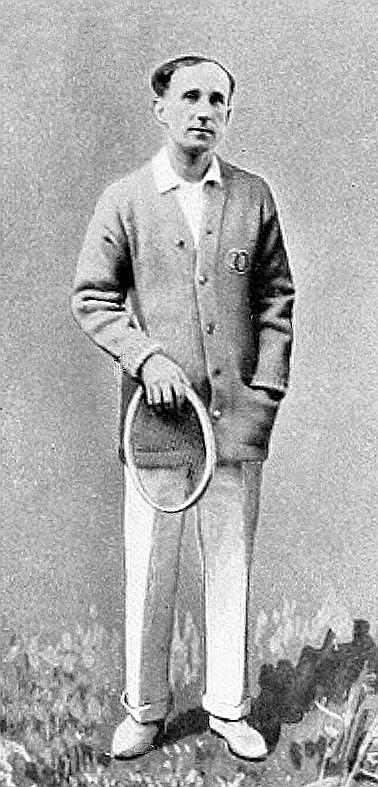 Maurice Germot at the 1912 Summer Olympics